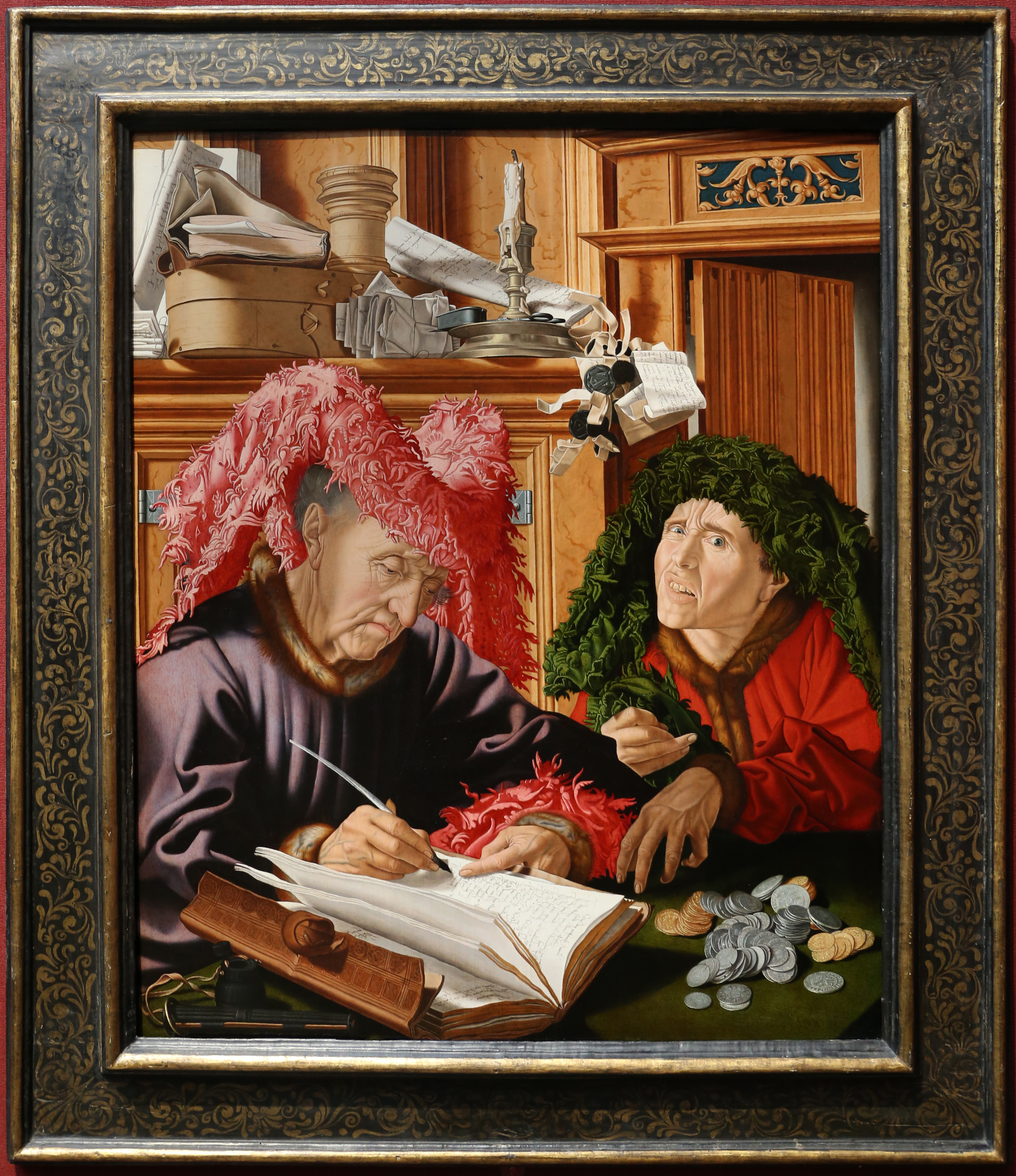 Flemish Renaissance paintings in the National Gallery, London